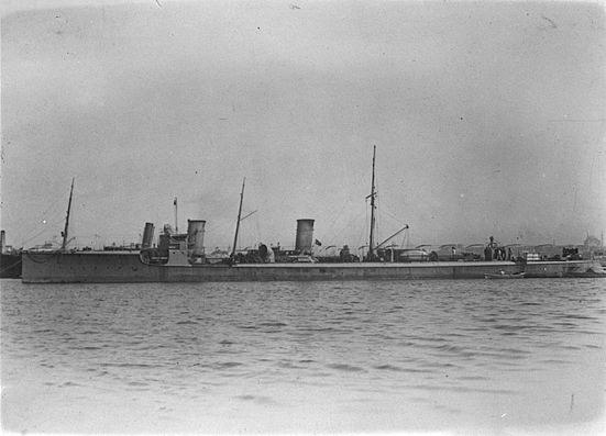 Destroyer Muavenet-i Milliye.